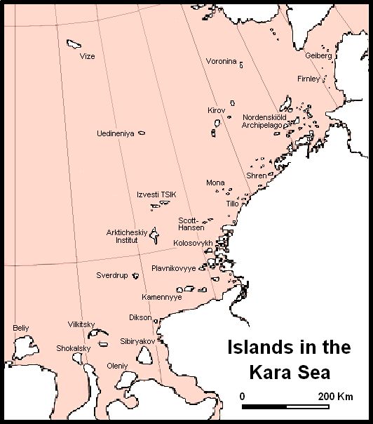 Islands and archipelagos of the Kara Sea